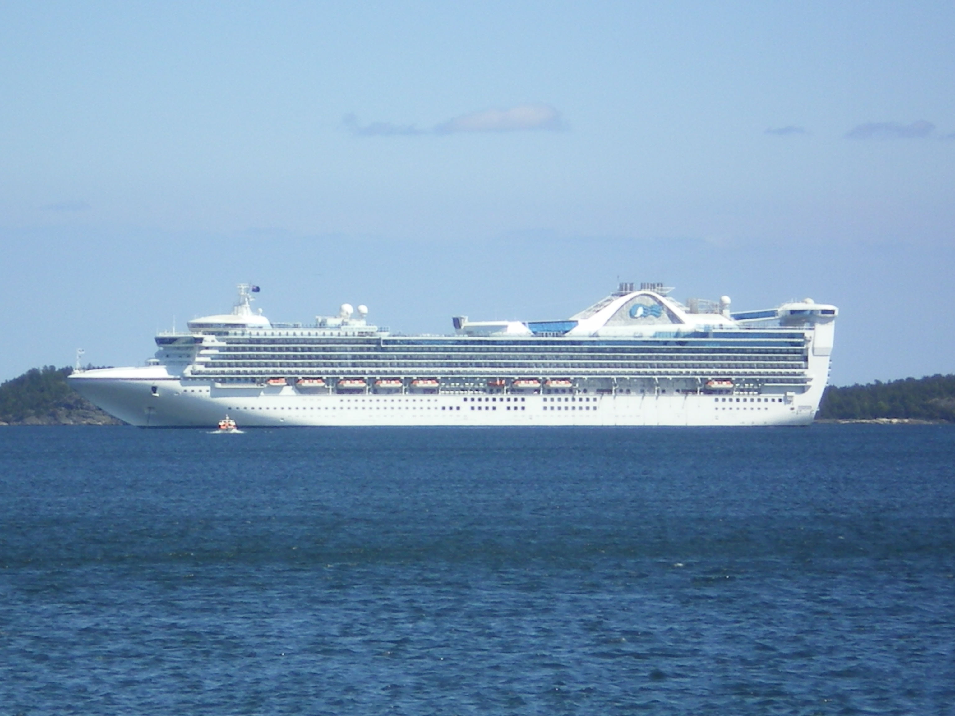 Star Princess tendering at Stockholm, Sweden